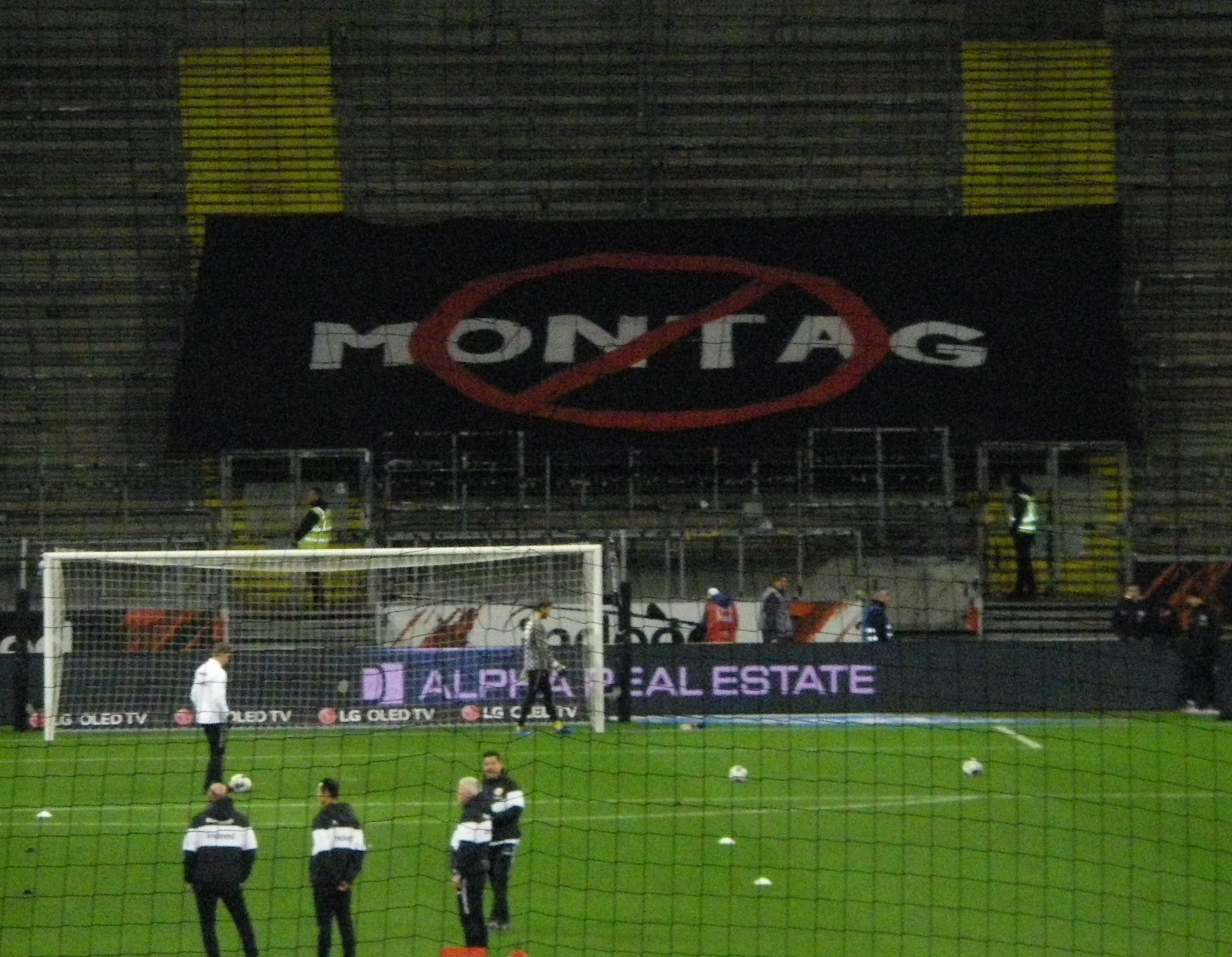 When Eintracht Frankfurt played Union Berlin on Monday Feb 24, 2020, the stands of Eintracht kept empty and have shown only this protest banner.